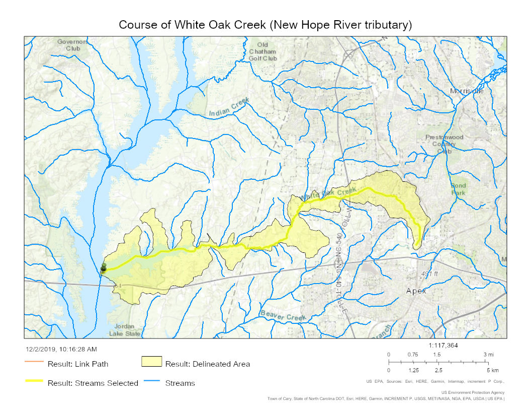 Map of the course of White Oak Creek (New Hope River tributary) in Chatham and Wake Counties, North Carolina.